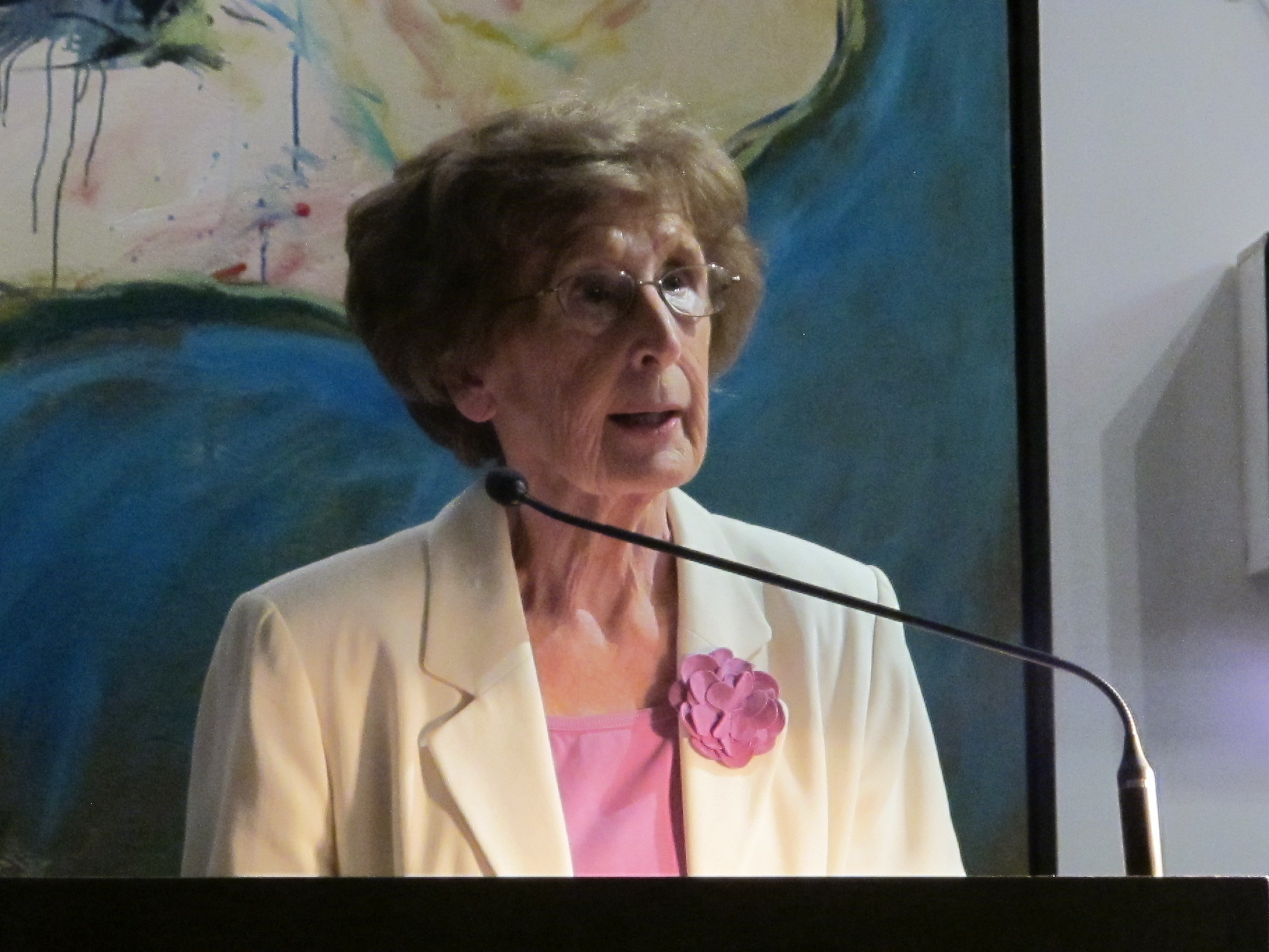 Julia Schiff at a book presentation in Lyrik Kabinett in Munich 2018